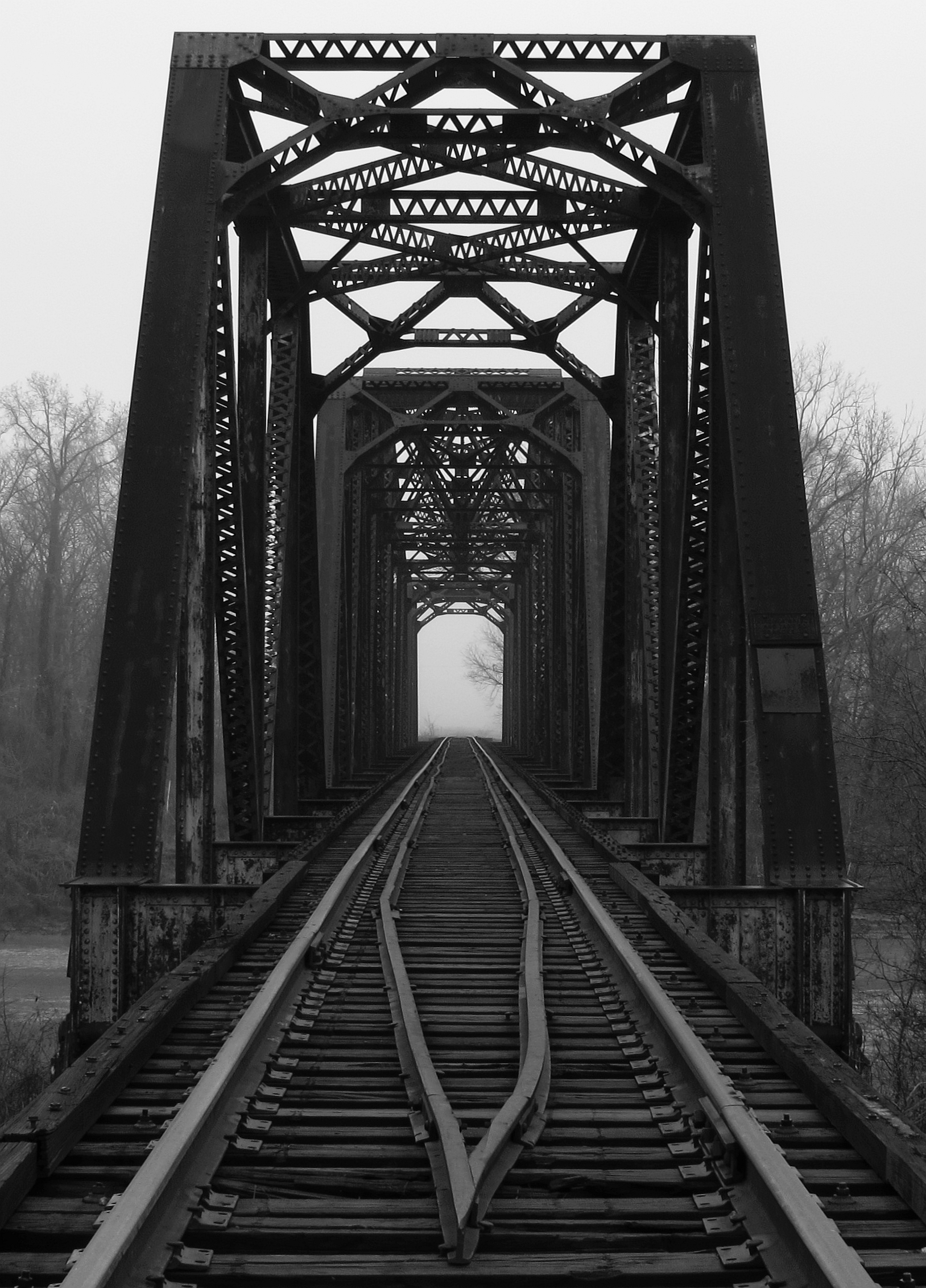 Columbus and Greenville Railway bridge over Yazoo River, Leflore County, Mississippi.